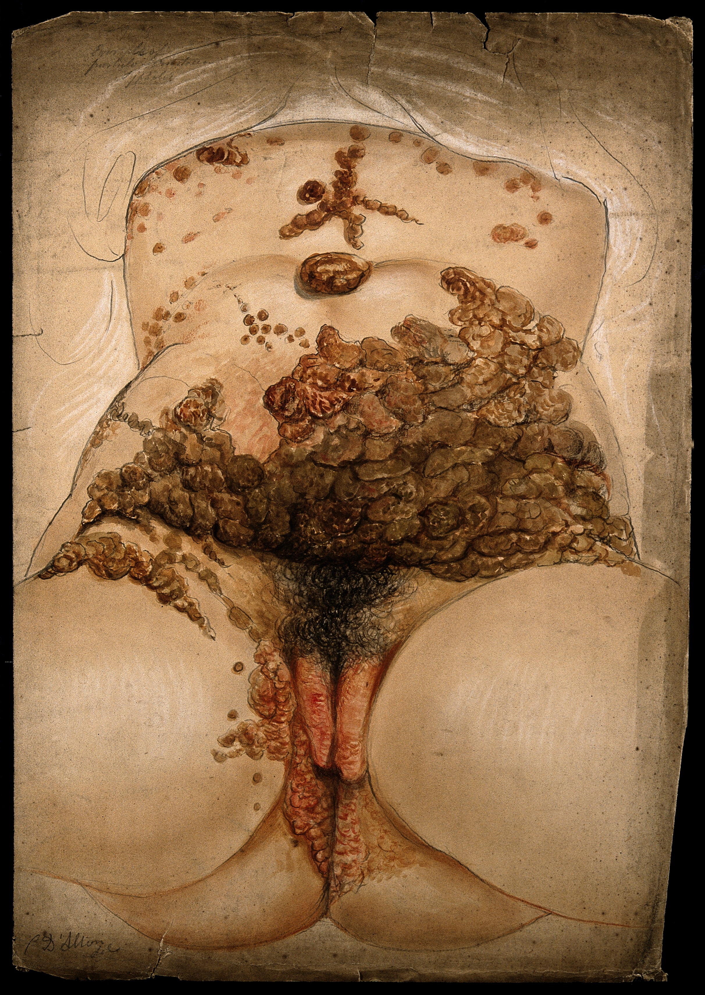 Pencil and watercolour drawing illustrating extensive lesions on the genitalia and torso of a woman suffering from syphilis. Iconographic Collections Keywords: Genitals; Venereal Diseases; Disfigurement; Pox; Sexually Transmitted Diseases; Skin; Rash; Christopher D'Alton; Syphilis; Dermatology; Infectious disease; Sexually transmitted disease; Communicable Diseases